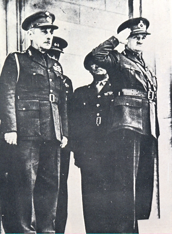 Commander-in-Chief of the Hellenic Army, Alexander Papagos (left), and General Officer Commanding-in-Chief of the Middle East Command of the British Army, General Archibald Wavell in Athens, Greece.